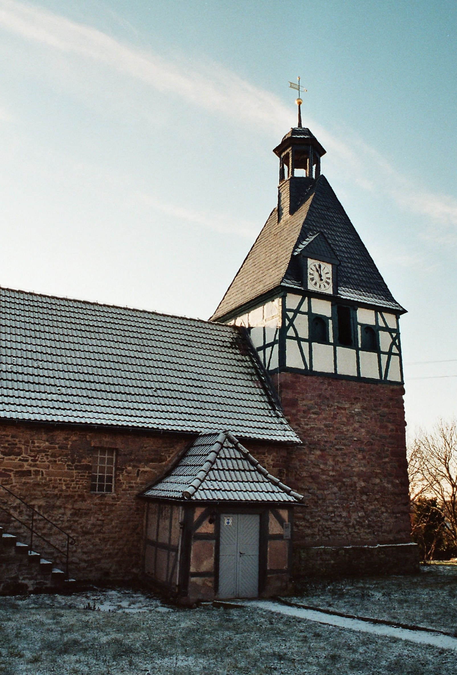 Liedersdorf (Allstedt), the village church St. Cyriacus This is a photograph of an architectural monument. 84347